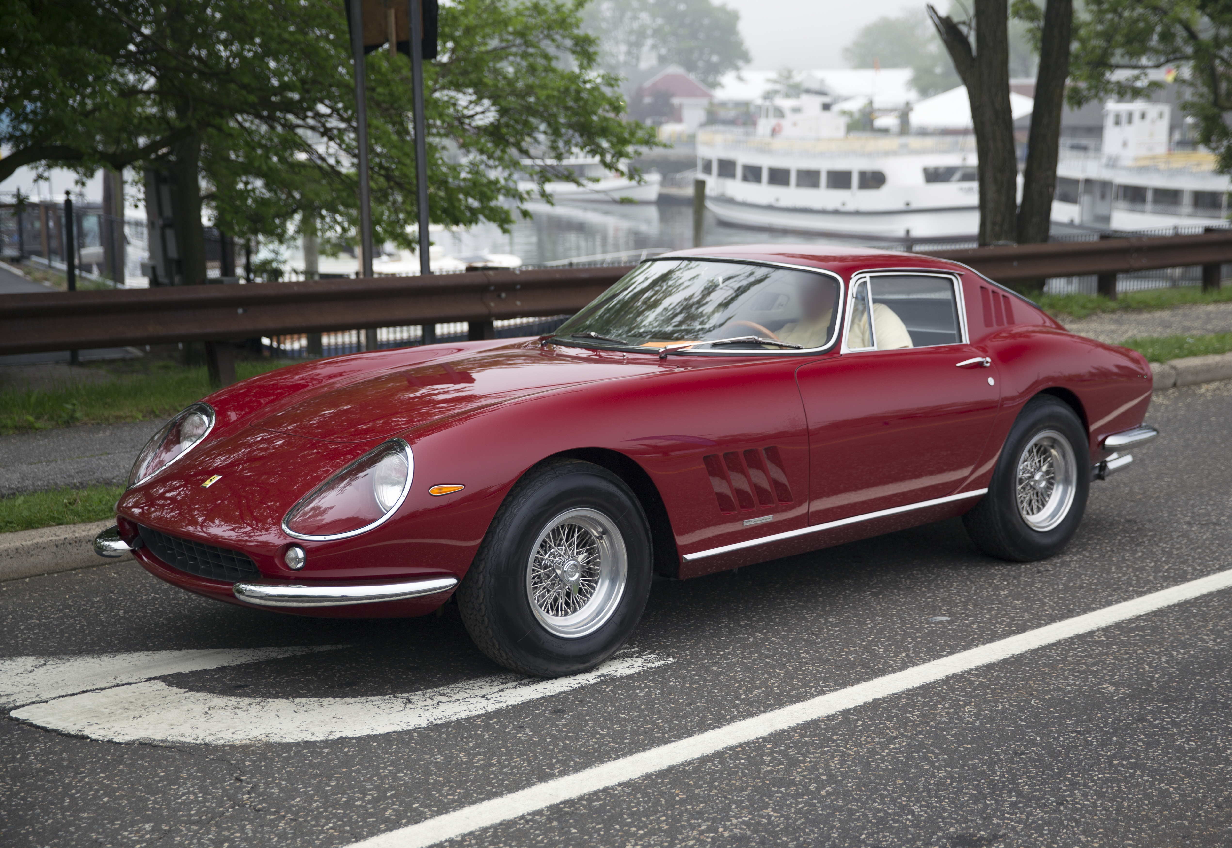 1966 Ferrari 275 GTB fixing to make its way into the 2019 Greenwich Concours d'Elegance. This is one of 105 torque tube cars; steel-bodied long-nose car with triple carburettors.